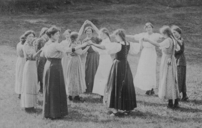 Round dance in the Black Forest